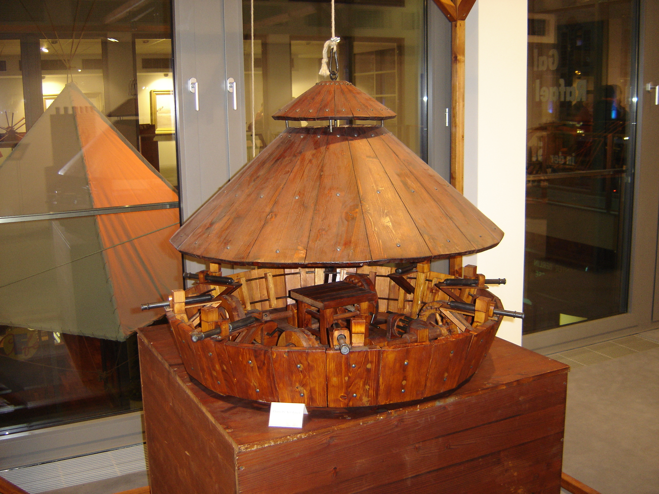 Model of a tank based on drawings by Leonardo da Vinci.Leonardo da Vinci. Mensch - Erfinder - Genie exhibit, Berlin 2005.